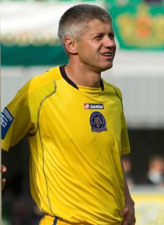 Oleksandr Chyzhevskyi